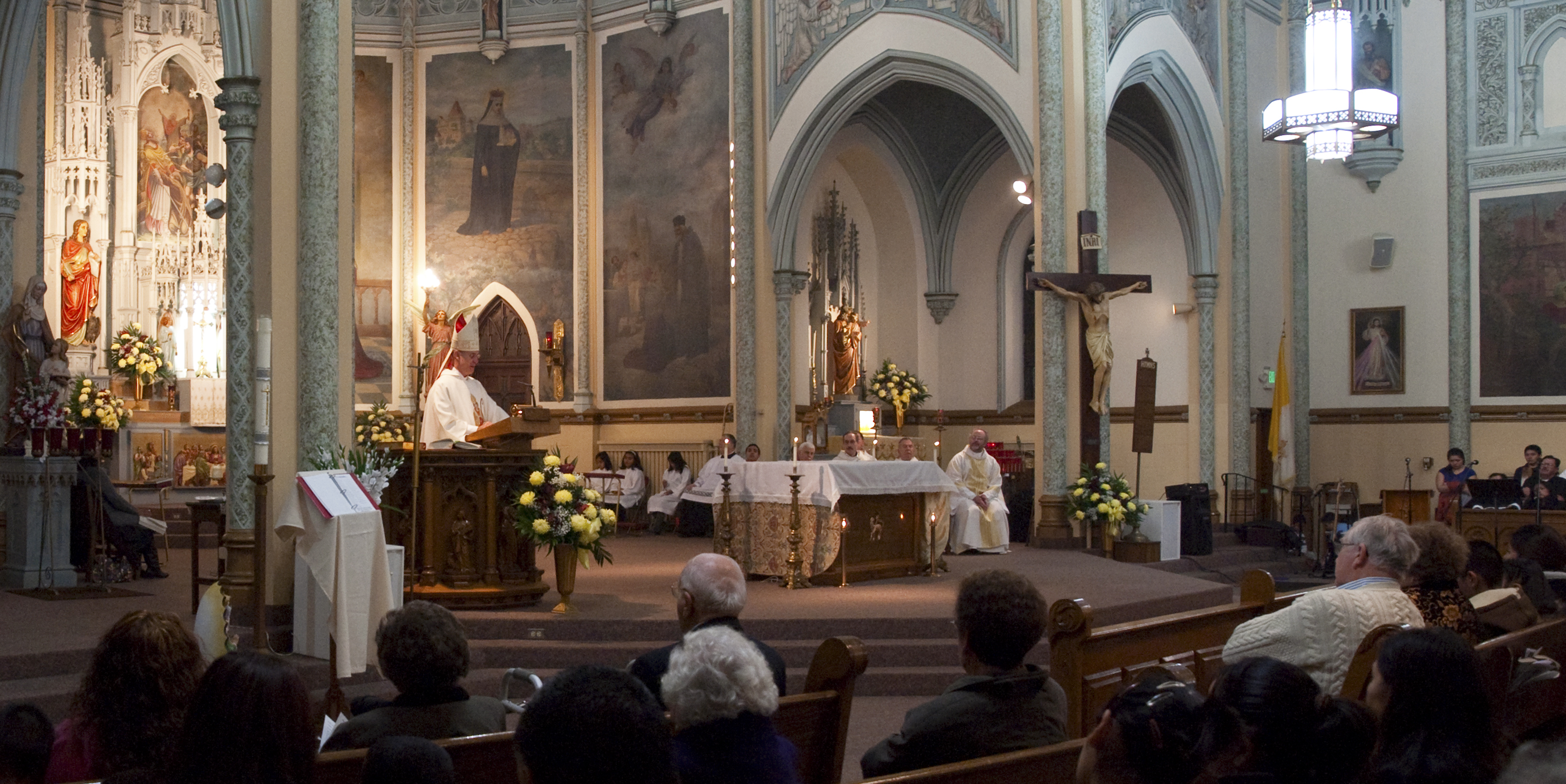 Bishop Kevin C. Rhoades preaches during the Centennial Mass for St. Adalbert Parish, South Bend, Indiana.